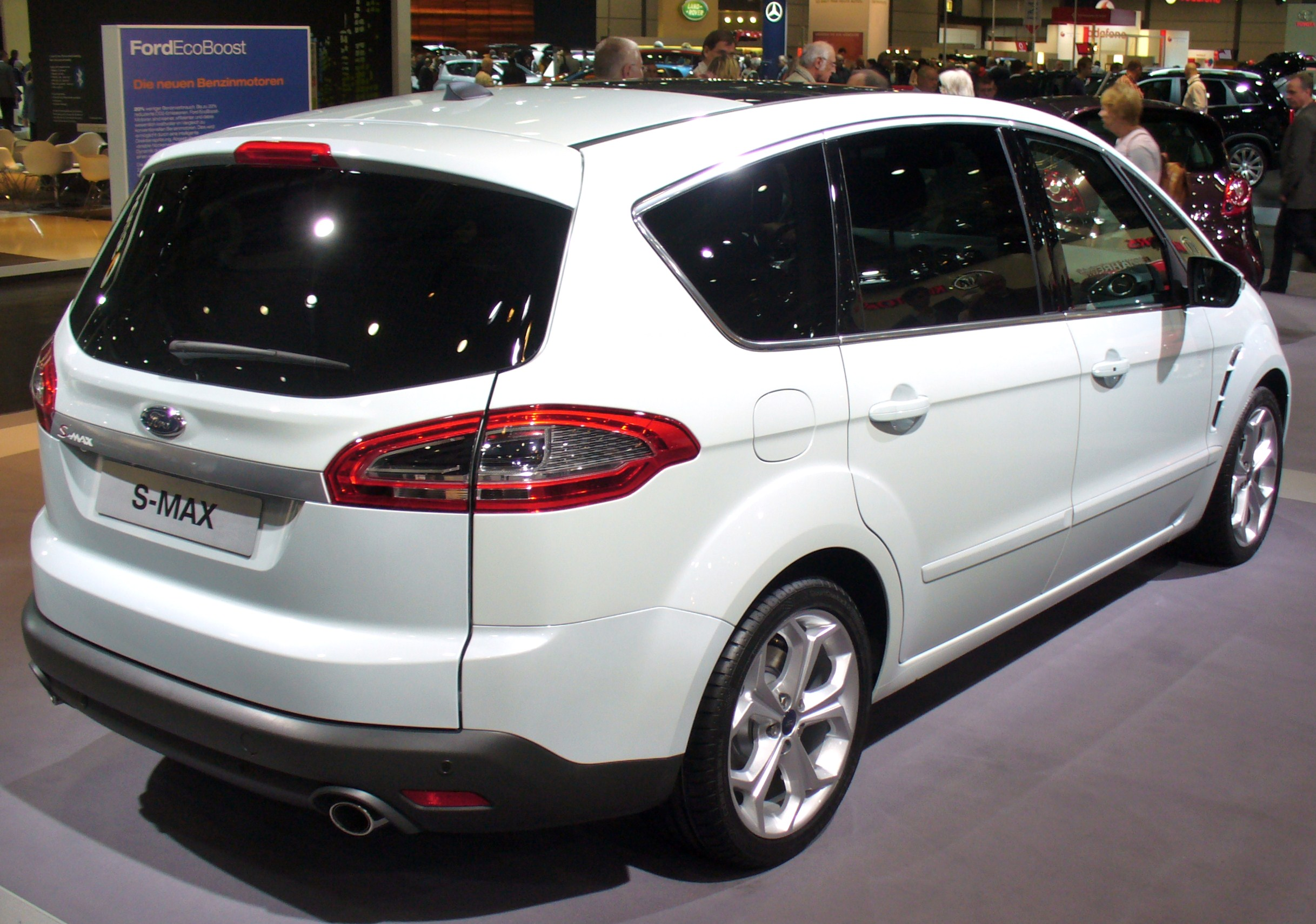 Ford S-Max Facelift